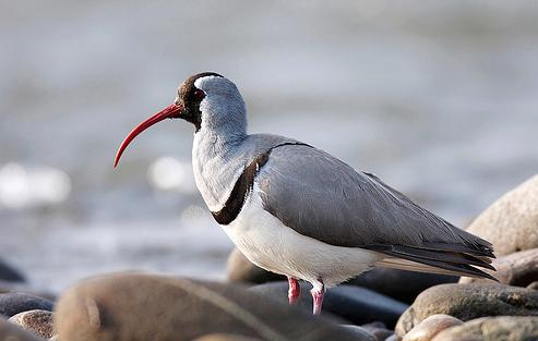 Ibisbill. Nameri NP, Assam